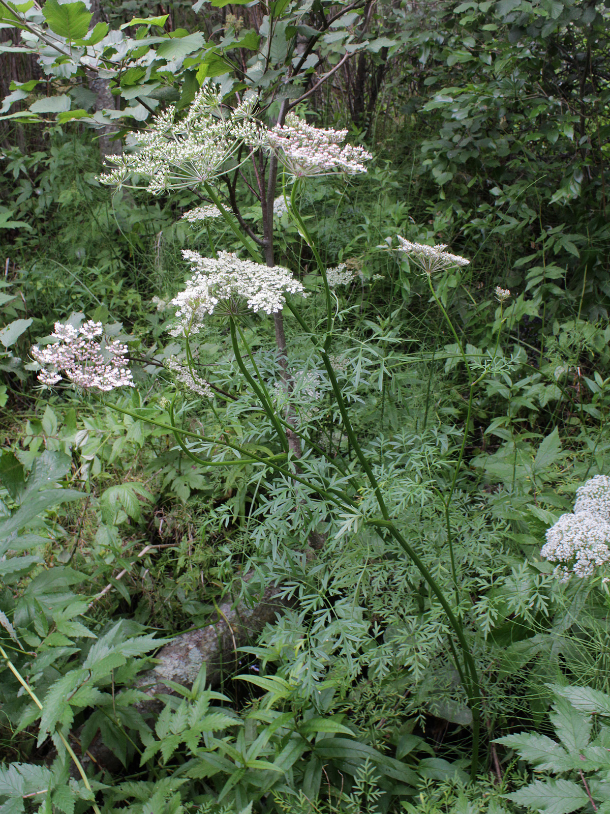 Apiaceae, Peucedanum palustre